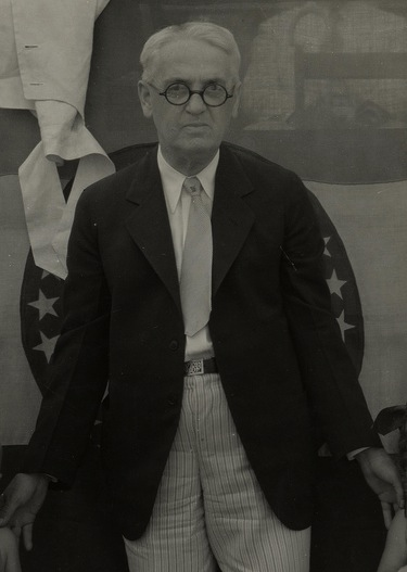 Collection Name: Department of Agriculture, Missouri State Fair Collection Photographer/Studio: Unknown Description: Governor Guy Park stands between the boy and girl scored highest in the 1933 Blue Ribbon Baby Contest. Coverage: United States – Missouri – Pettis – Sedalia Date: 1933 Rights: Copyright is in the public domain. Credit: Courtesy of Missouri State Archives Image Number: Box 14 Institution: Missouri State Archives